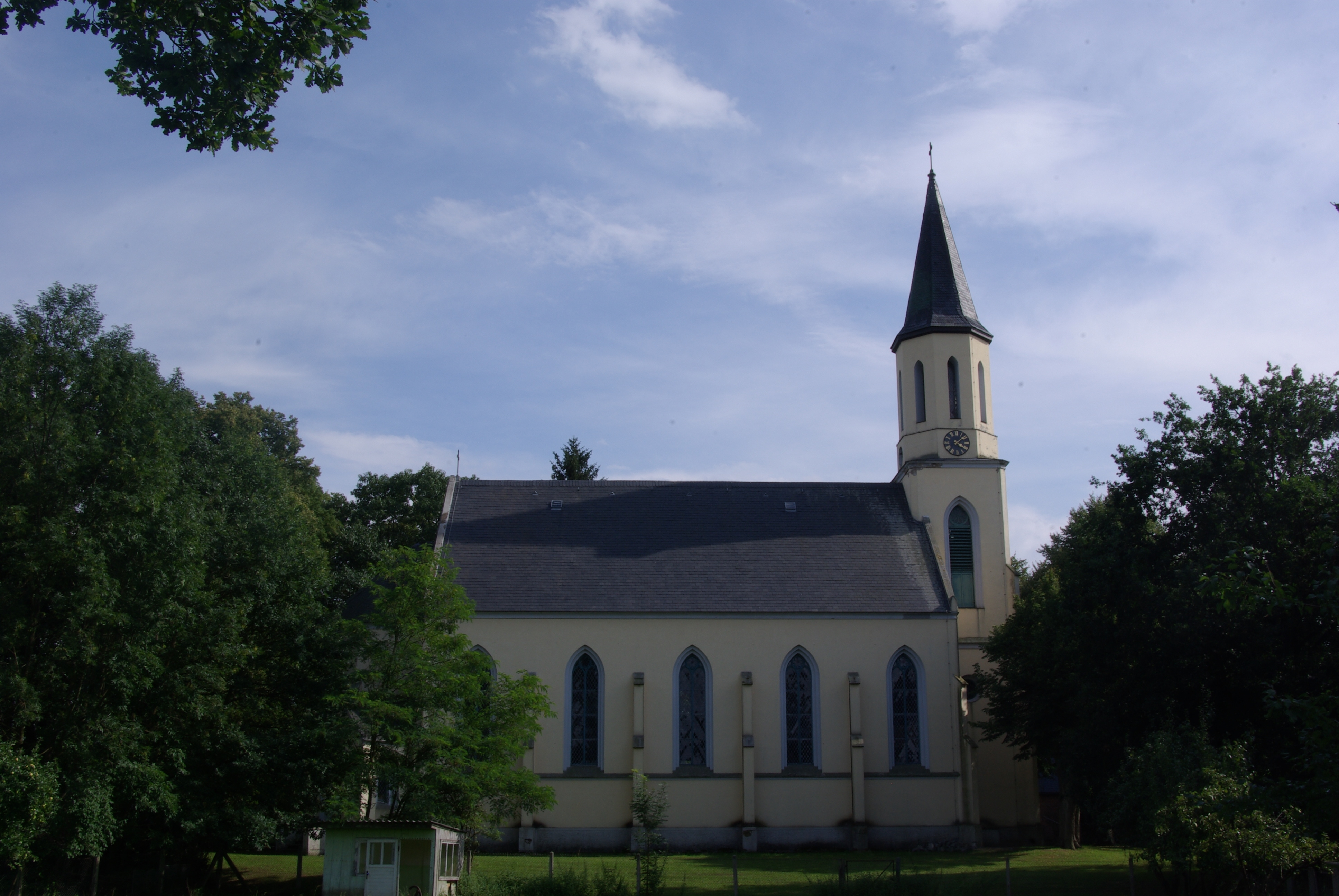 Cumlosen in Brandenburg, Germany. The church was built from 1856 until 1858.